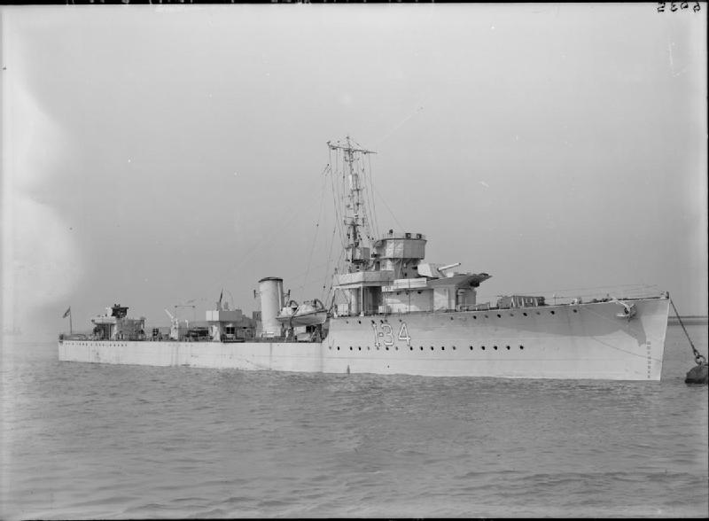 HMS Velox At a buoy.